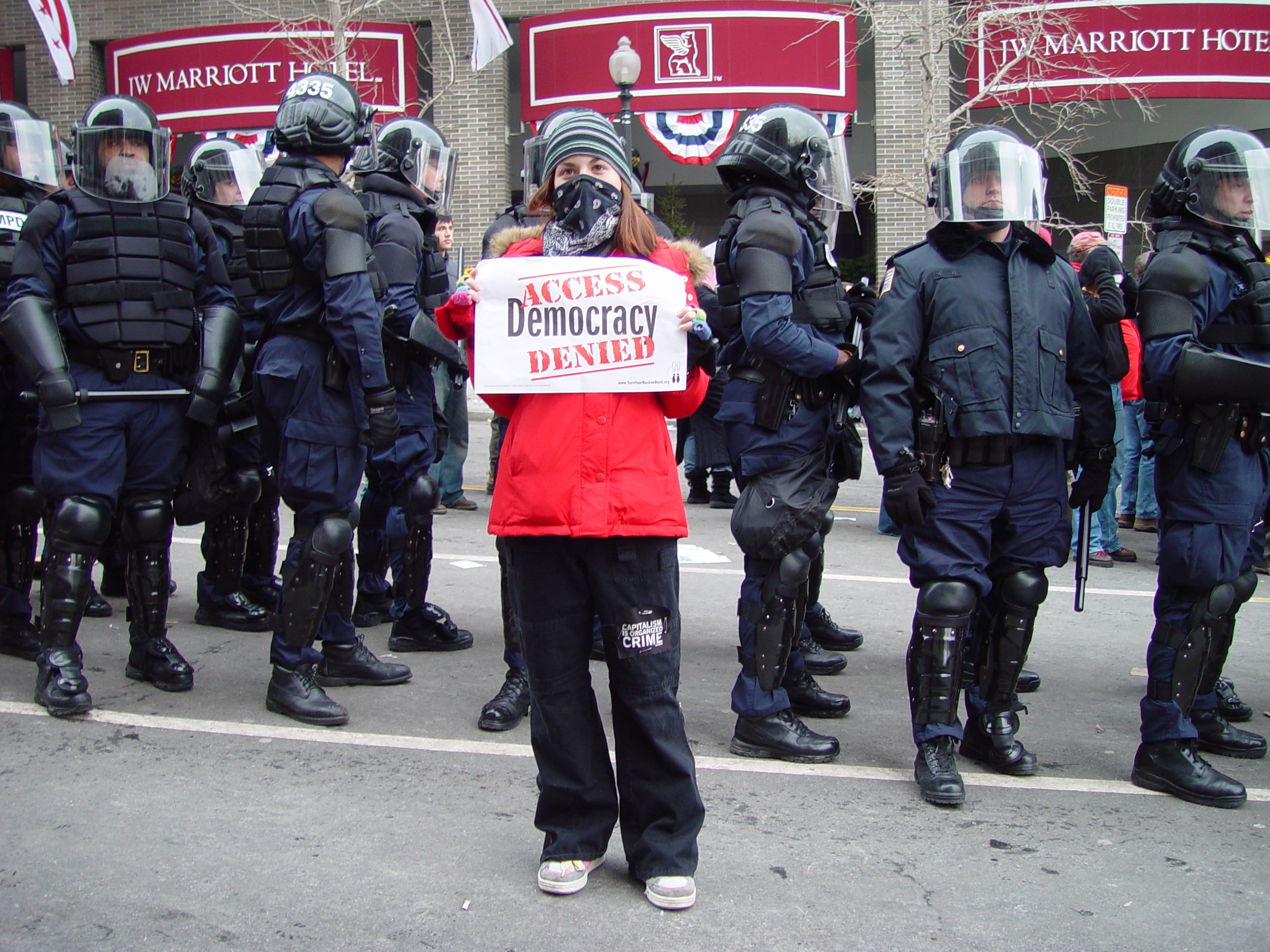 Access denied to the inauguration parade, Washington DC.